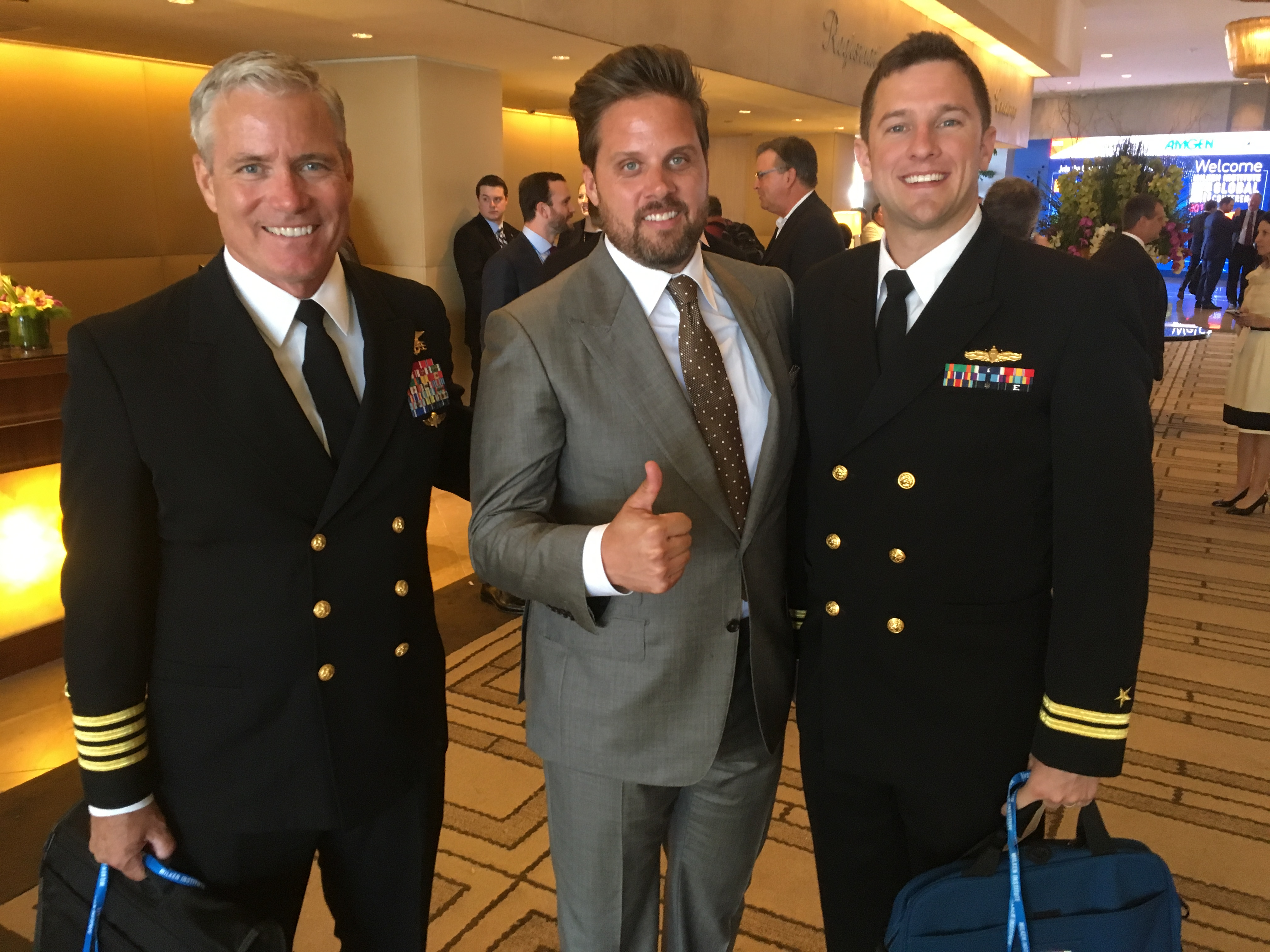 Speaker, Nate Holzapfel, at the 2017 Milken Institute Global Conference.